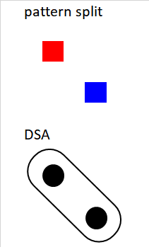 Two vias normally patterned by separate masks (red and blue) may be recombined into one exposure with the assistance of DSA, with the use of a guiding pattern (black border). Ref.: J. Bekaert et al., Proc. SPIE 9658, 965804 (2015).